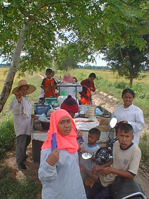 Villagers getting ready for work on a farm in Ban Sam Ruen, Phitsanulok, Thailand